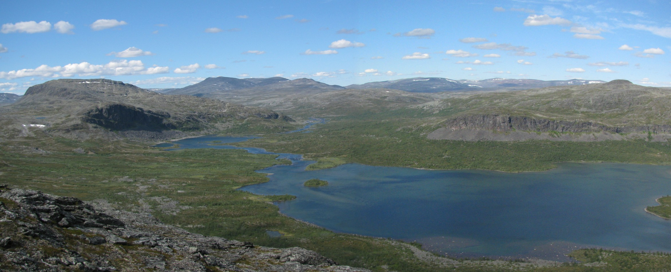 View from Saivaara to Meekonlaakso in Enontekiö, Finland.